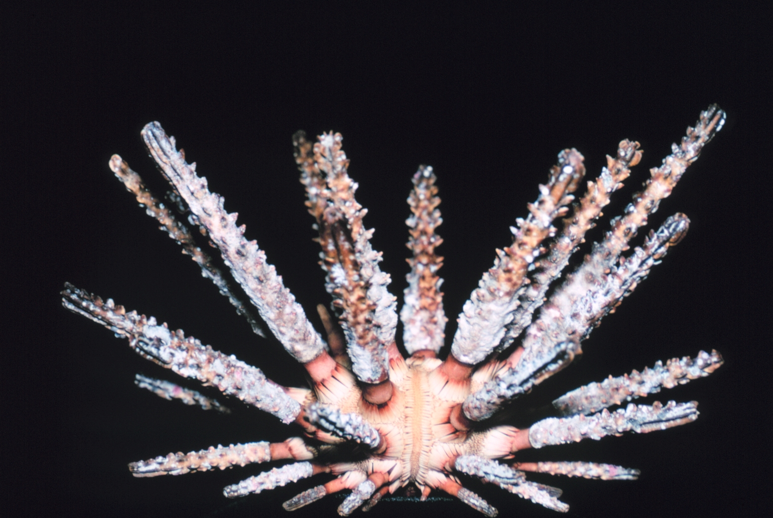 The urchin, Prionocidaris hawaiiensis, endemic to the Hawaiian islands. [Edit : as a specialist I consider this is rather Chondrocidaris gigantea]. Image ID: reef0228, The Coral Kingdom Collection Location: University of Hawaii Institute of Marine Biology Credit: Photo Collection of Dr. James P. McVey, NOAA Sea Grant Program